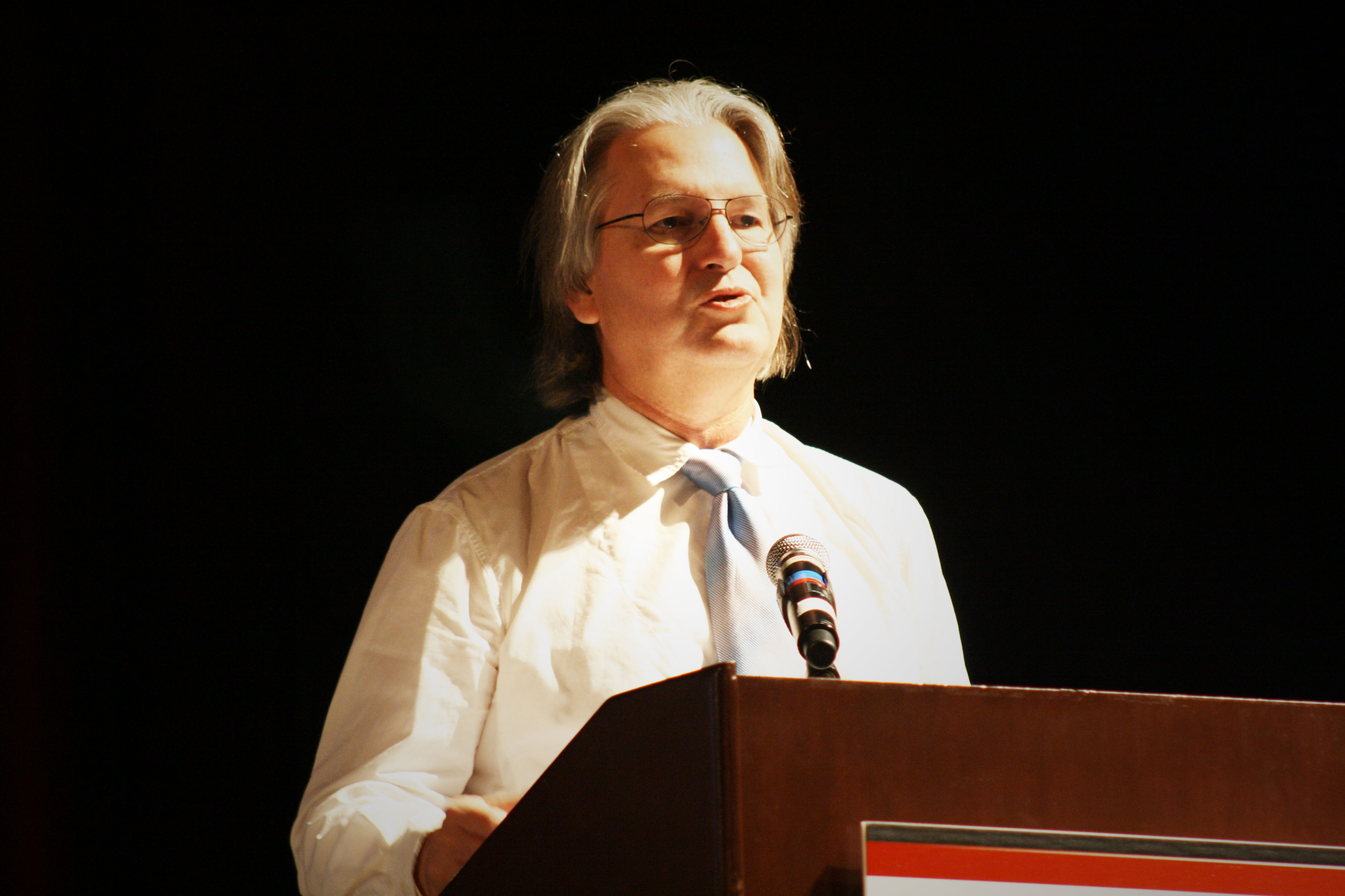 Photograph taken on June 2, 2010 in Renaissance, San Jose, CA, US, using a Canon EOS Digital Rebel XS.